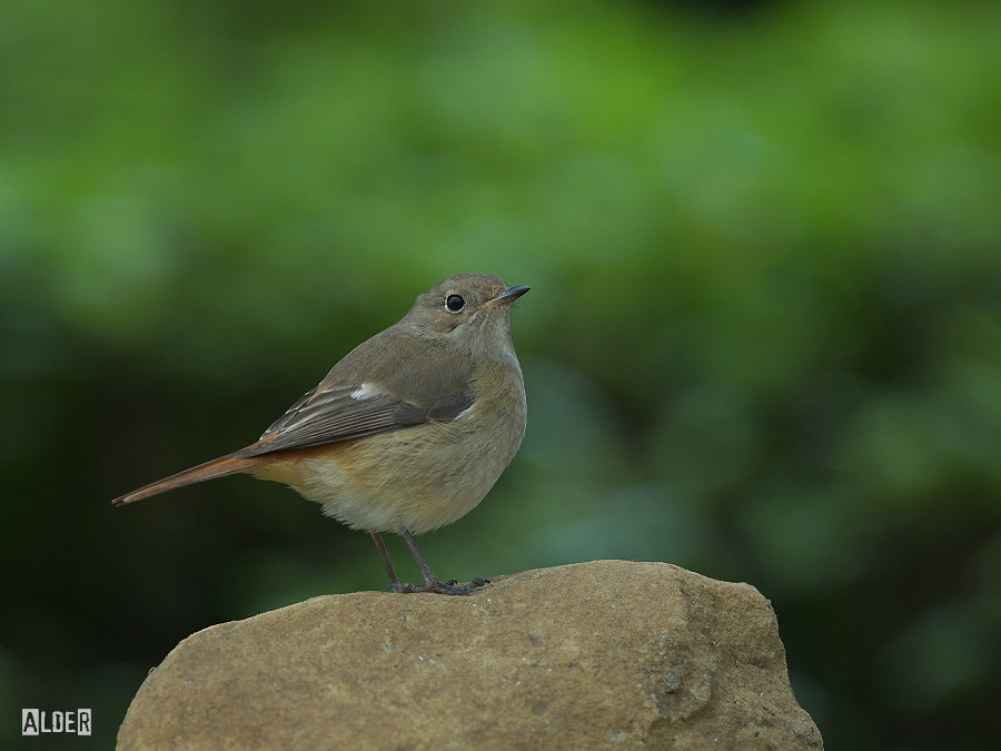 taken at Yehliu, Taipei County, Taiwan.